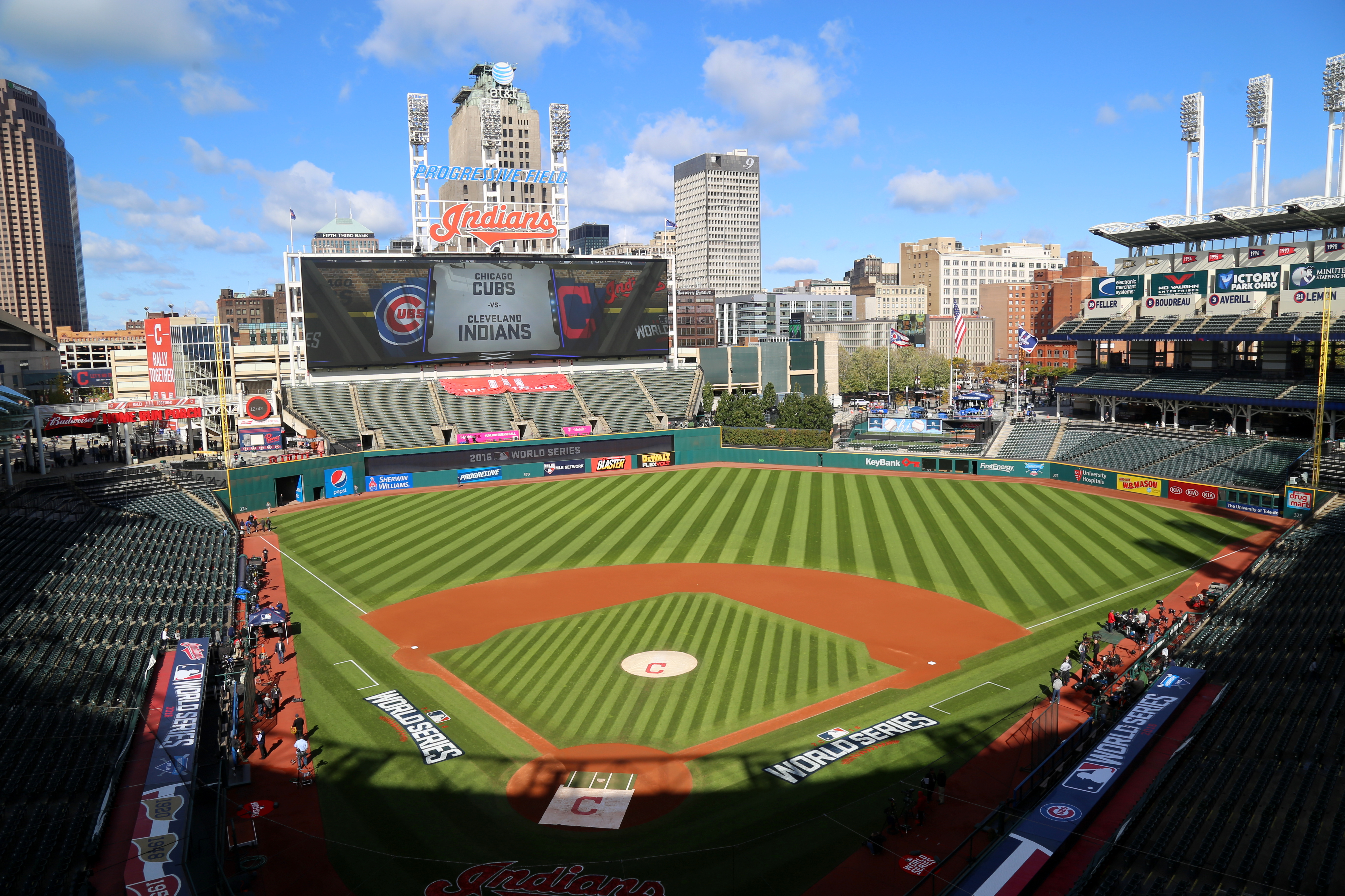 Progressive Field, hours before Game 1 of the 2016 World Series.